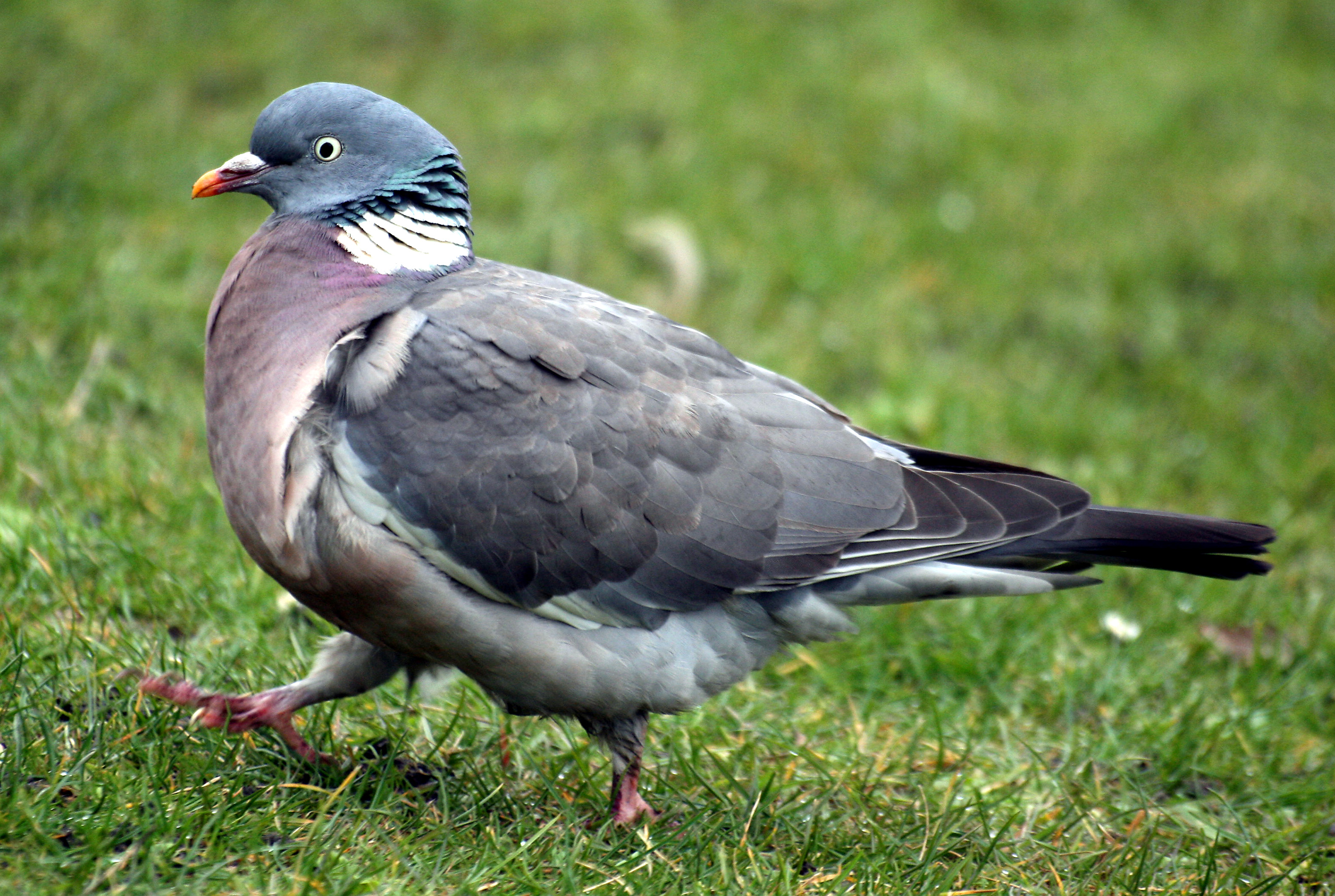 Wood Pigeon - Kensington Gardens, London - Easter Monday, March 24th 2008.